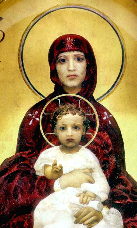 Icon's fragment - The Blessed Virgin Mary With Child by Mikhail Vrubel, Ukraine, Kiev, St. Cyril's Monastery